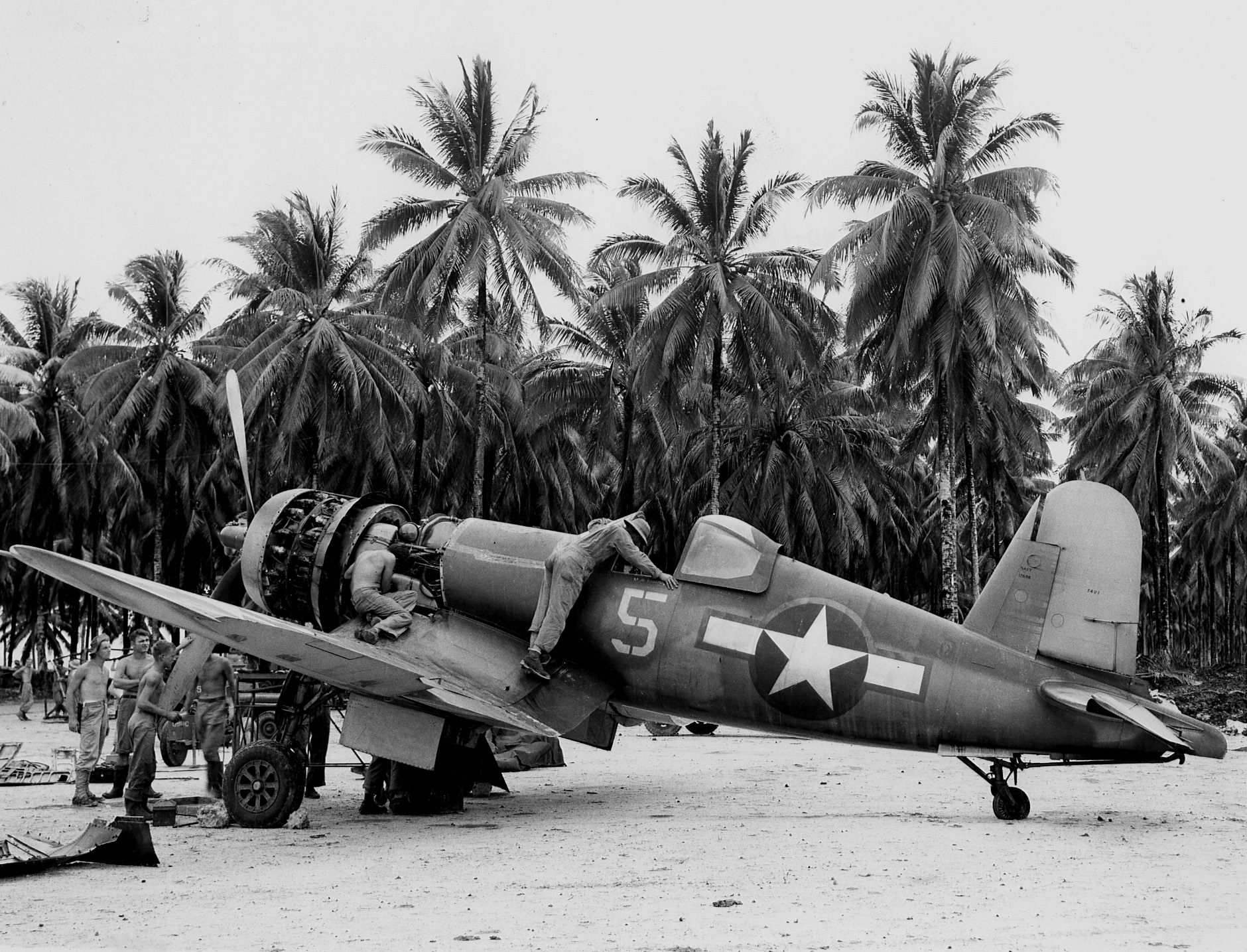 A U.S. Navy Vought F4U-1A Corsair (BuNo 17656) of Fighting Squadron VF-17 Jolly Rogers pictured on Nissan Island, Green Island Group, after making an emergency landing there. The airstrip had not yet been completed when the aircraft arrived.